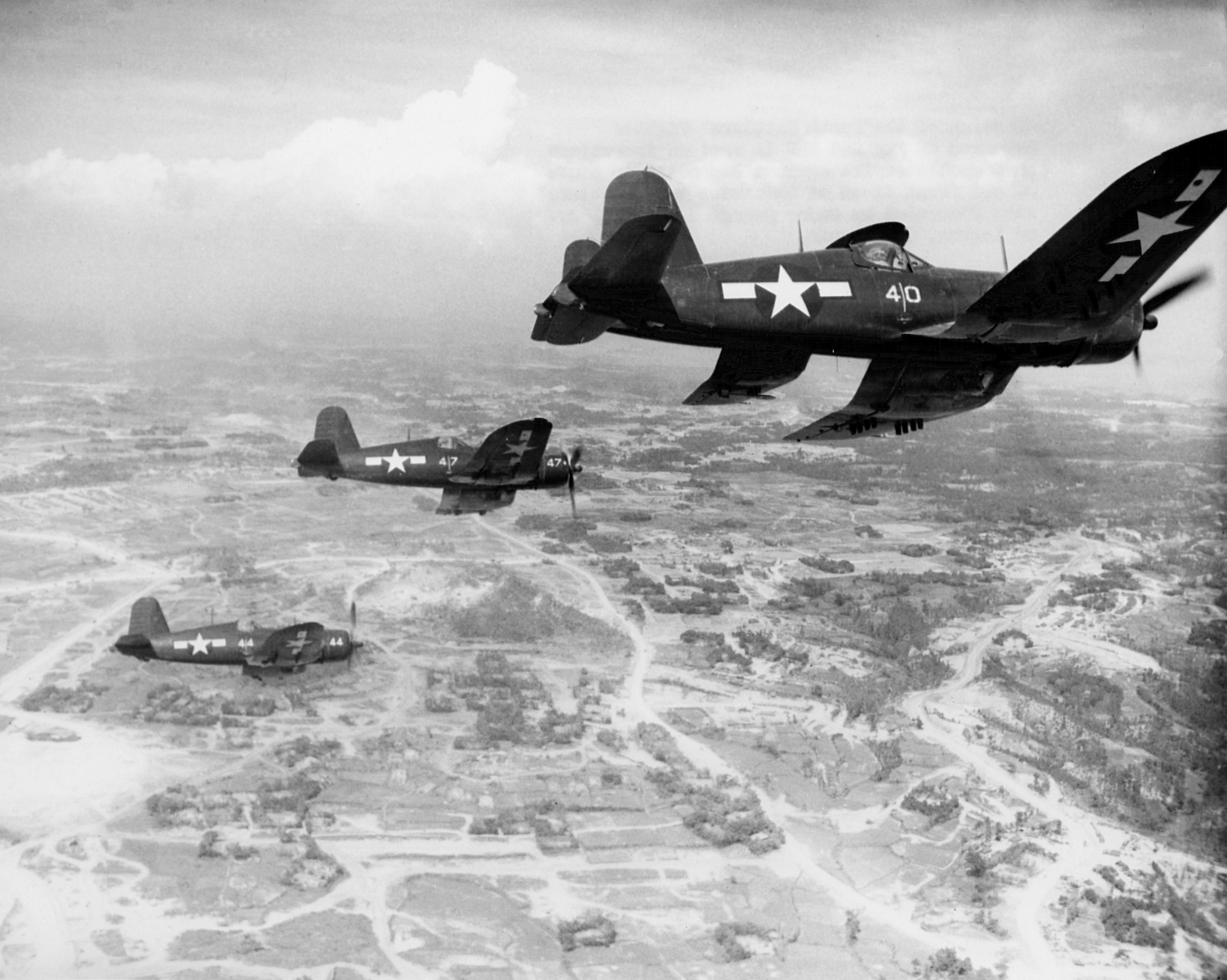 Four U.S. Marine Corps Goodyear FG-1D Corsairs of Marine Fighter Squadron VMF-323 "Death Rattlers" on a rocket strike against Japanese positions south of the front lines on Okinawa. The "Rattlers" were assigned to the 2nd Marine Aircraft Wing and commanded by Major George C. Axtell of Laguna, California (USA).